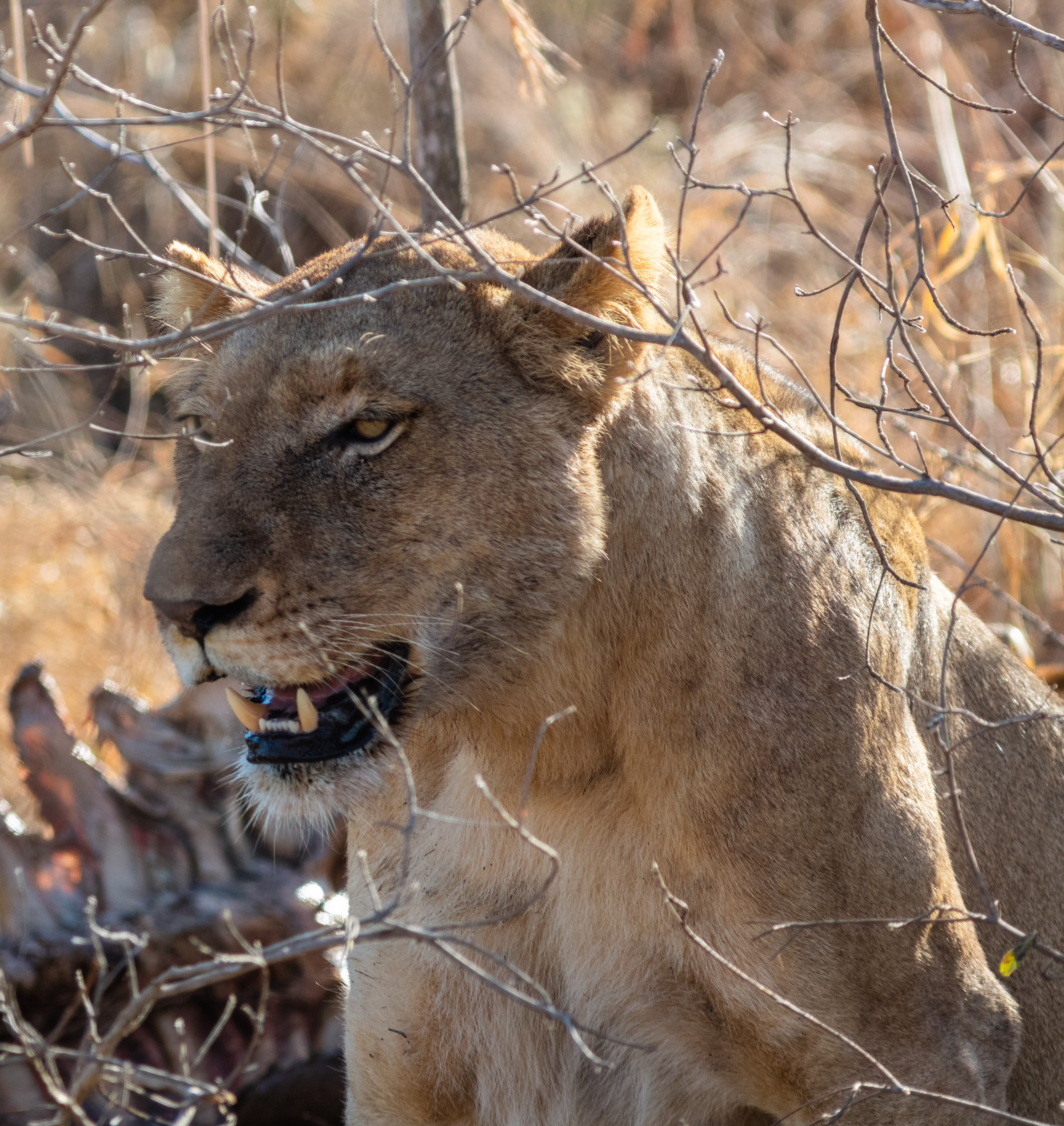 Lion (Panthera leo), Kruger National Park, South Africa